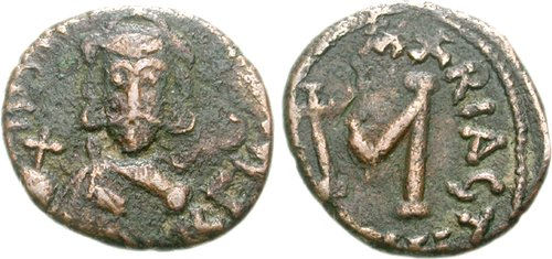 Æ Follis (4.44 g, 10h), Class 3. Struck in Carthage in 687-695 AD during the first reign of the byzantine king Justinian II (685-695 AD). IVSTINI [A...], crowned and draped facing bust, wearing short beard and holding globus cruciger, crown topped with cross / [ЧІ]TOR up left field, RI AGT down right, large M; + [P]AX above; [KΓ]ω.